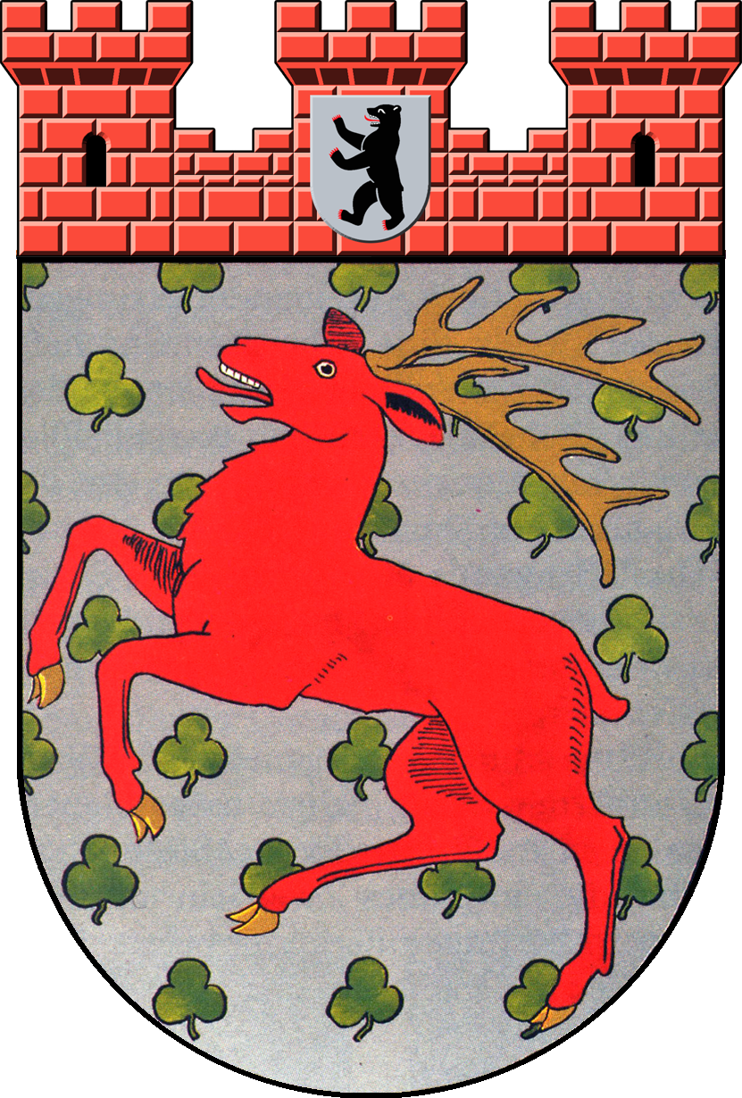 Coat of arms of Tiergarten, a former Boroughs of Berlin.